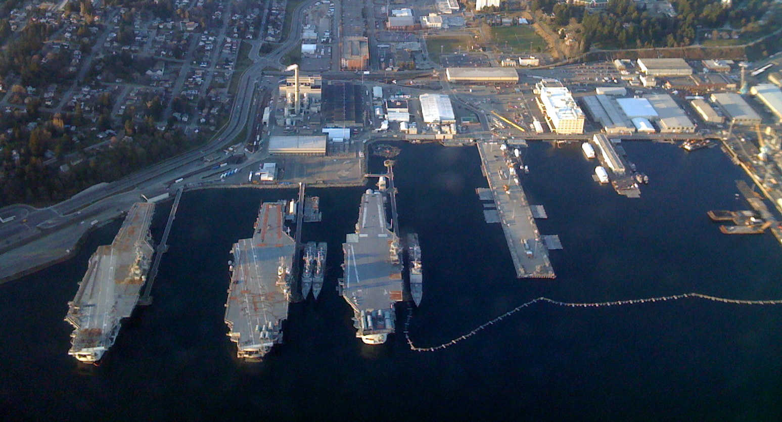 A view of the decomissioned aircraft carriers USS Independence (CV-62), USS Constellation (CV-64), and USS Ranger (CV-61) docked at the Bremerton Naval Inactive Ship Maintenance Facility, Washington (USA).